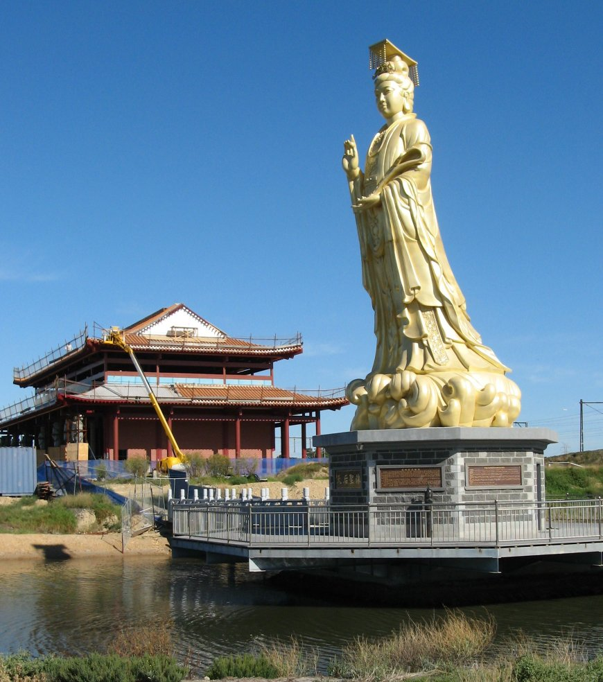 The Heavenly Queen Temple (天后宫, Tianhou Gong), a Chinese folk temple dedicated to the sea-goddess Mazu but sometimes mistakenly identified as a "Taoist" or "Buddhist" temple, Newells Paddock, Maribyrnong River, Melbourne under construction 20 February 2010.